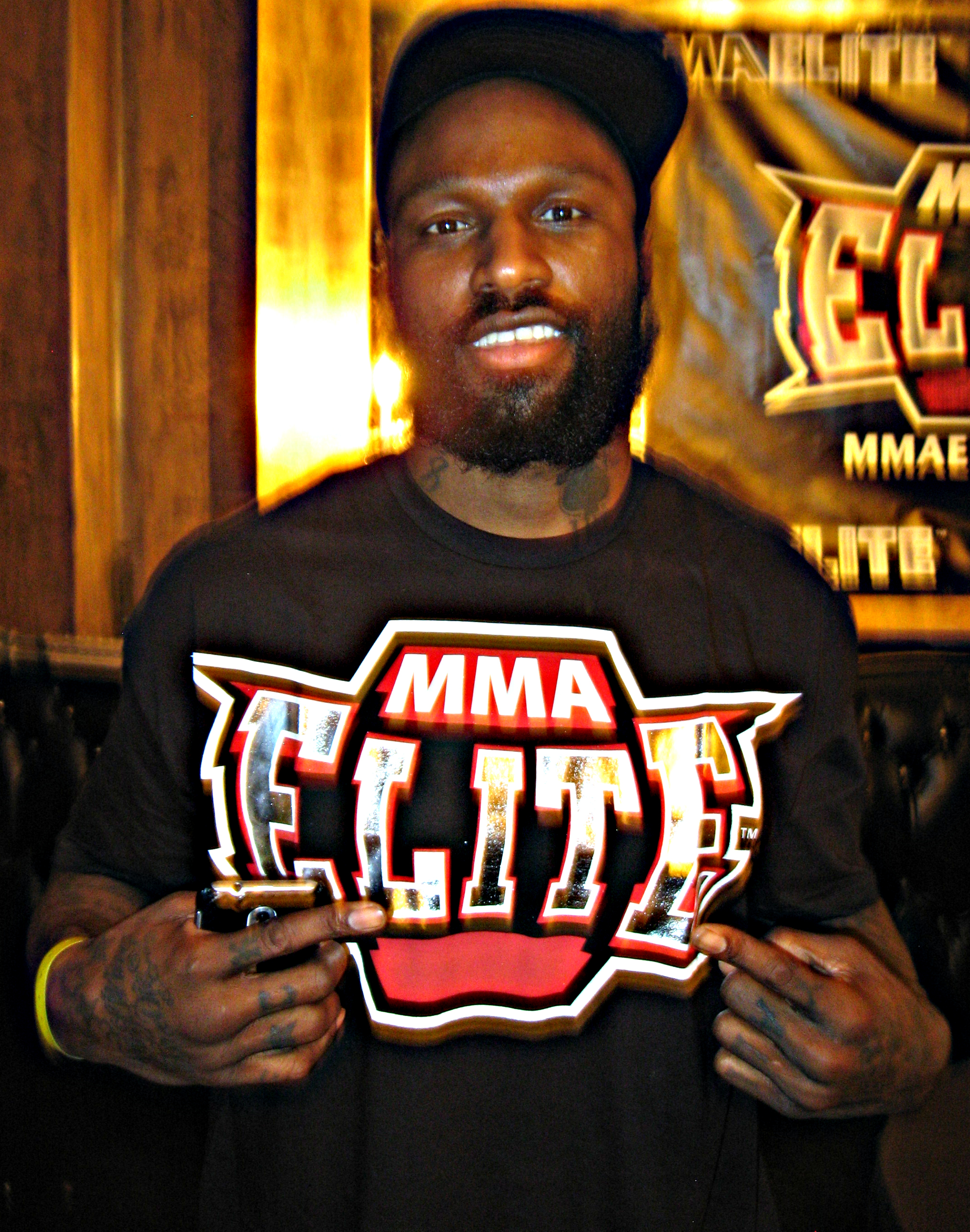 Public Picture of Muhammed Lawal taken in Los Angeles, California on April 25, 2012 at Samurai MMA Pro 2.